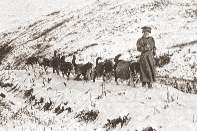 Fannie used a dog team for transportation and freighting, as seen in the above photograph of her packing supplies to a mine in 1915.